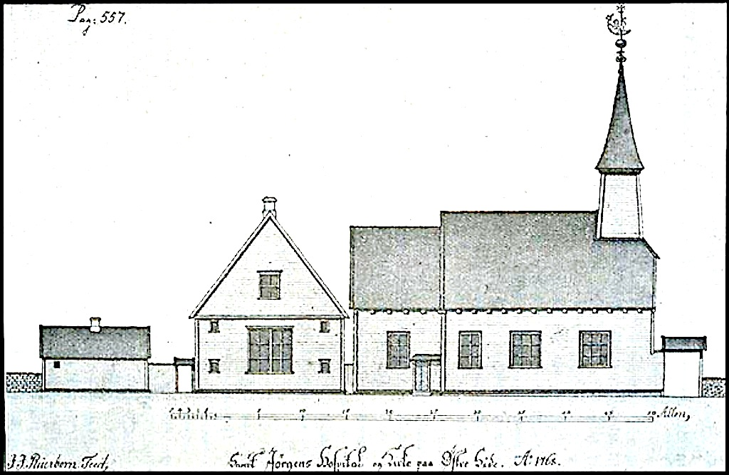 St. Jørgens Hospital, Bergen, Norway. Drawing by Johan Joachim Reichborn, 1768